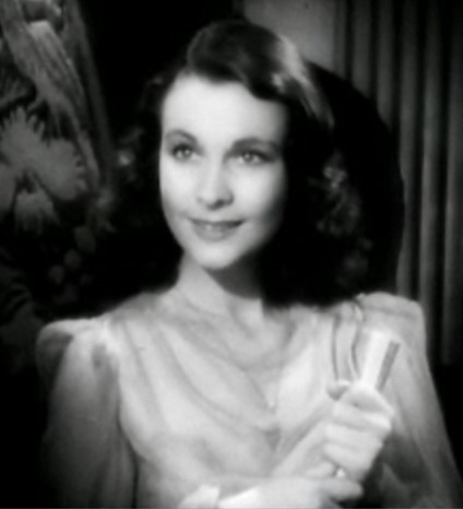 Cropped screenshot of Vivien Leigh from the trailer for the film Waterloo Bridge Related image : from the same section of the trailer as Image:Vivien Leigh in Waterloo Bridge trailer 2.jpg